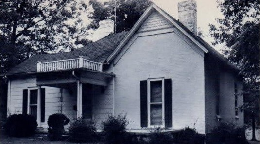 The Scudder Family home in Shelbyville which was destroyed in the early 2000's